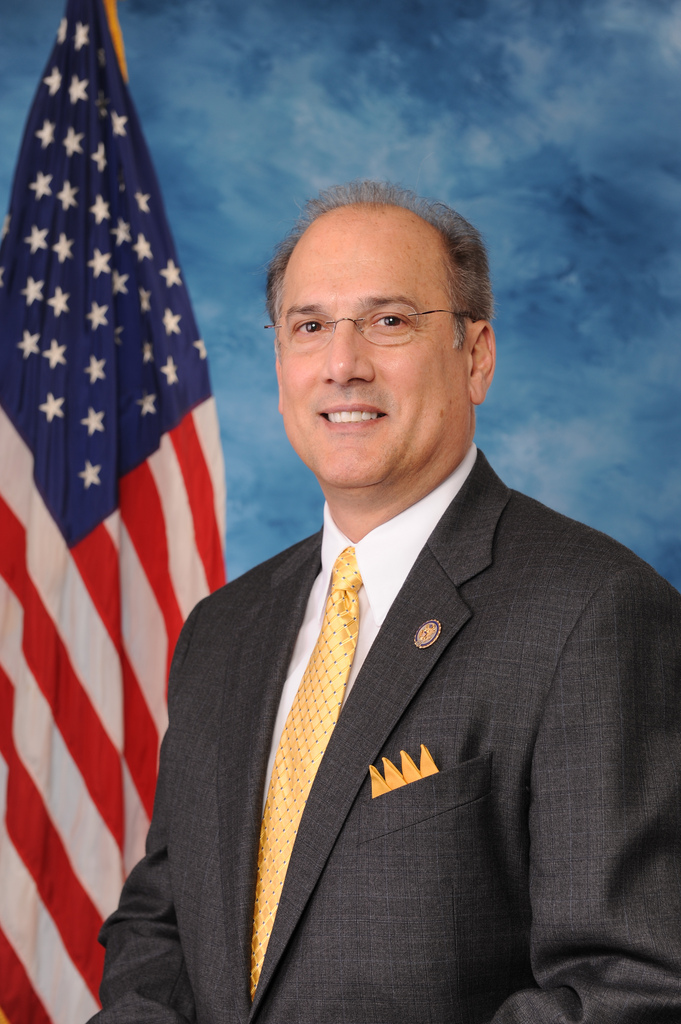 Official portrait of US Rep. Tom Marino.